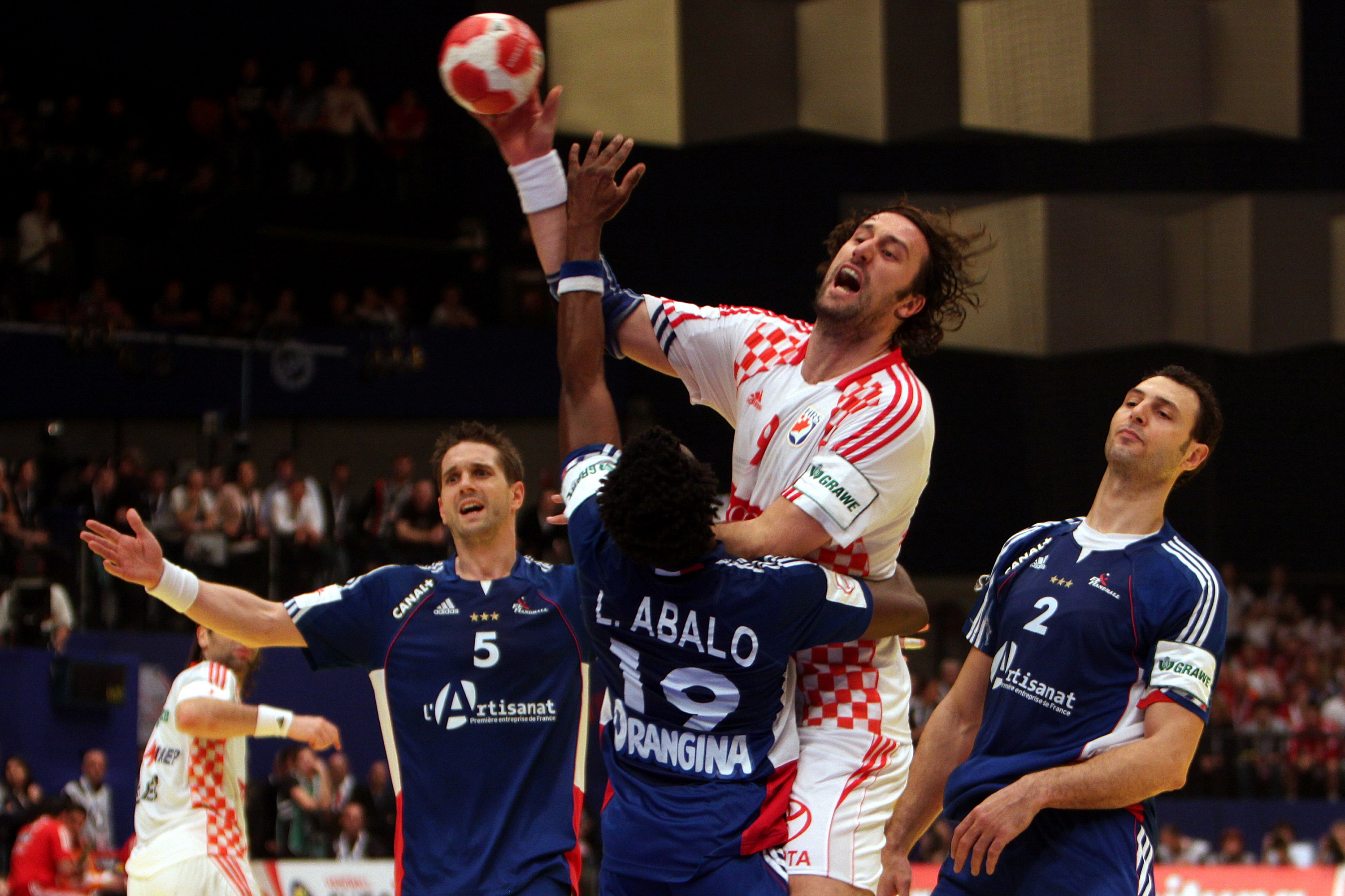 2010 European Men's Handball Championship Final place 1: Croatia vs France 21:25 — Igor Vori (Croatia national handball team) is blocked by Luc Abalo (France national handball team). Guillaume Gille (left) and Jérôme Fernandez (right) as spectator.